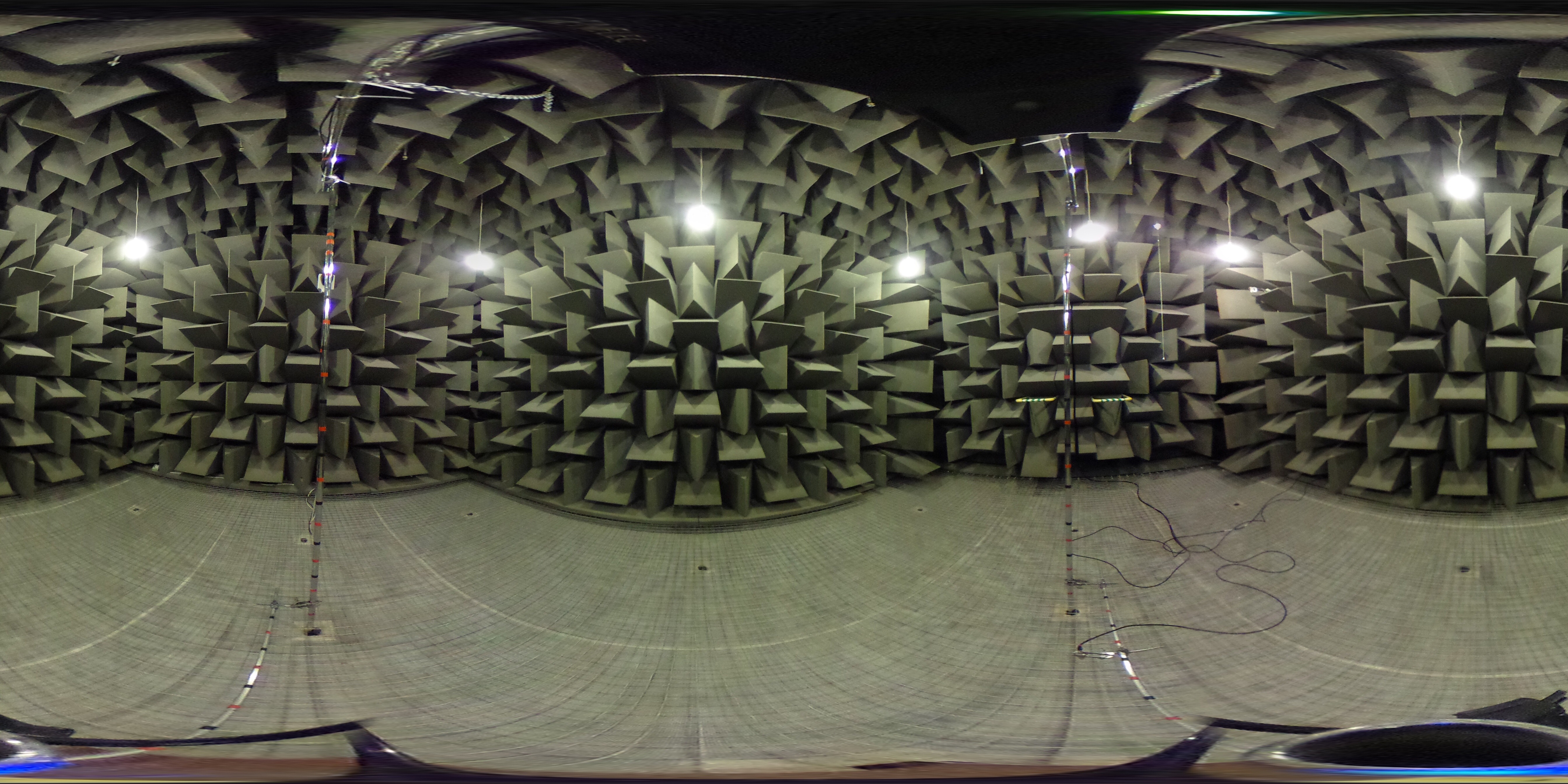 A 360 degree photo of the anechoic chamber at University of Salford, UK.